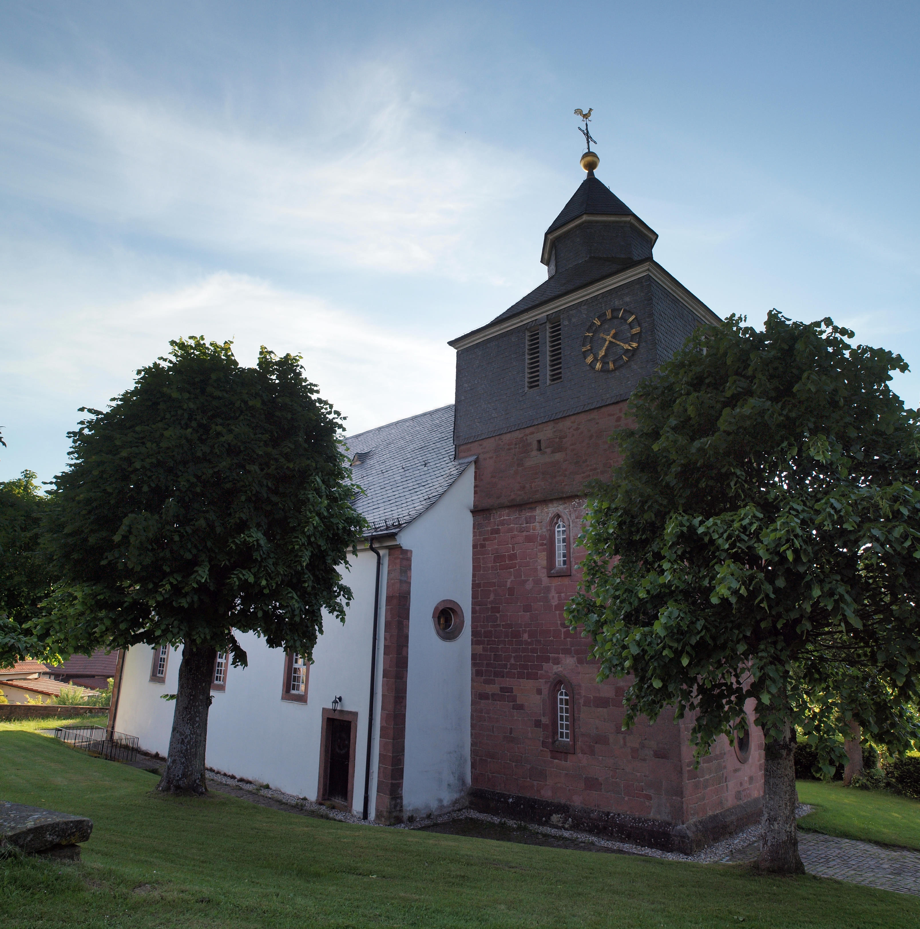 Evangelische Kirche Schmalenberg